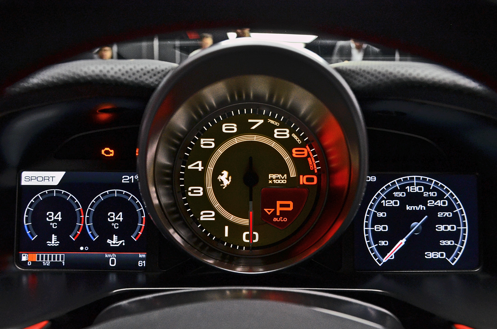 812 Superfast's driver instrument cluster